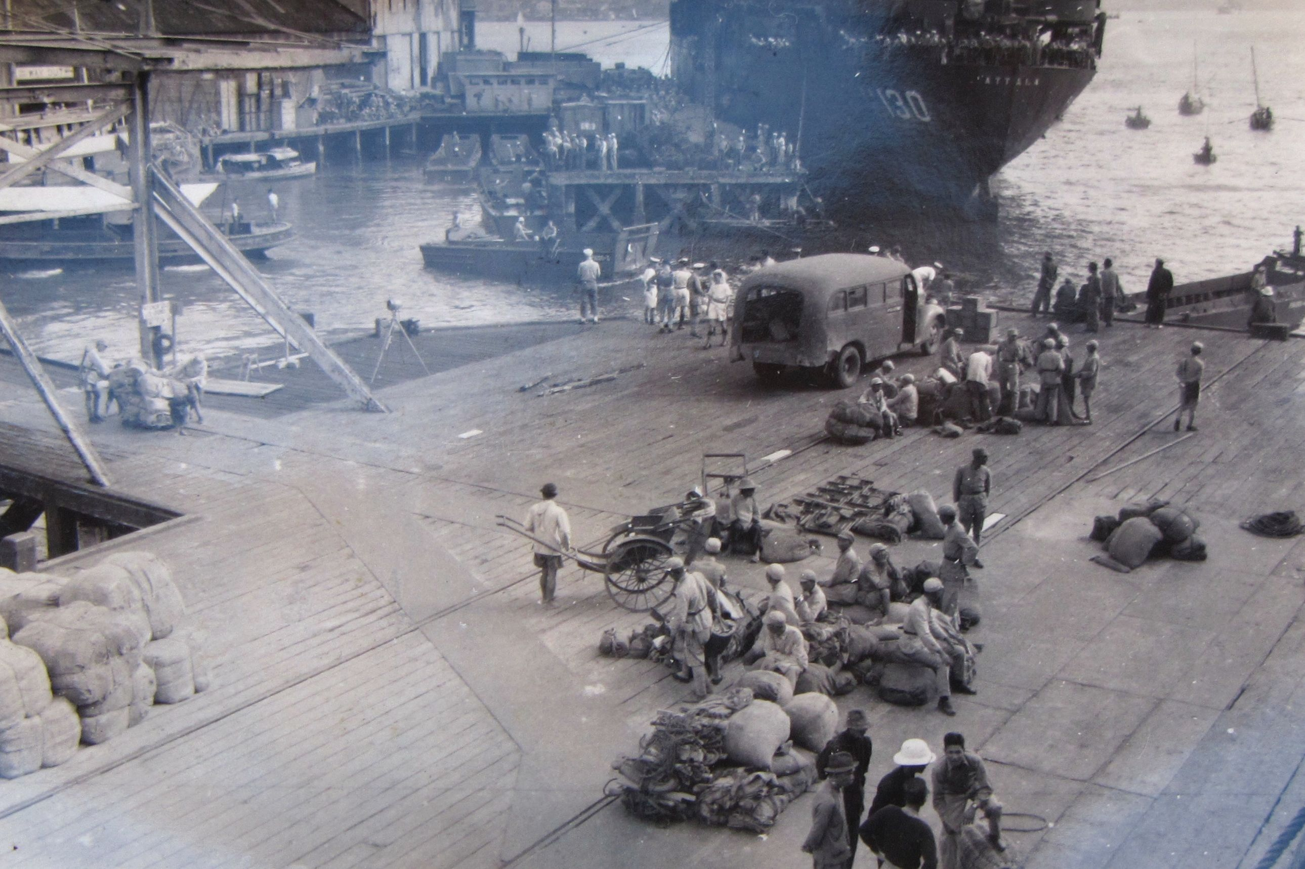 Nationalist Chinese moving north